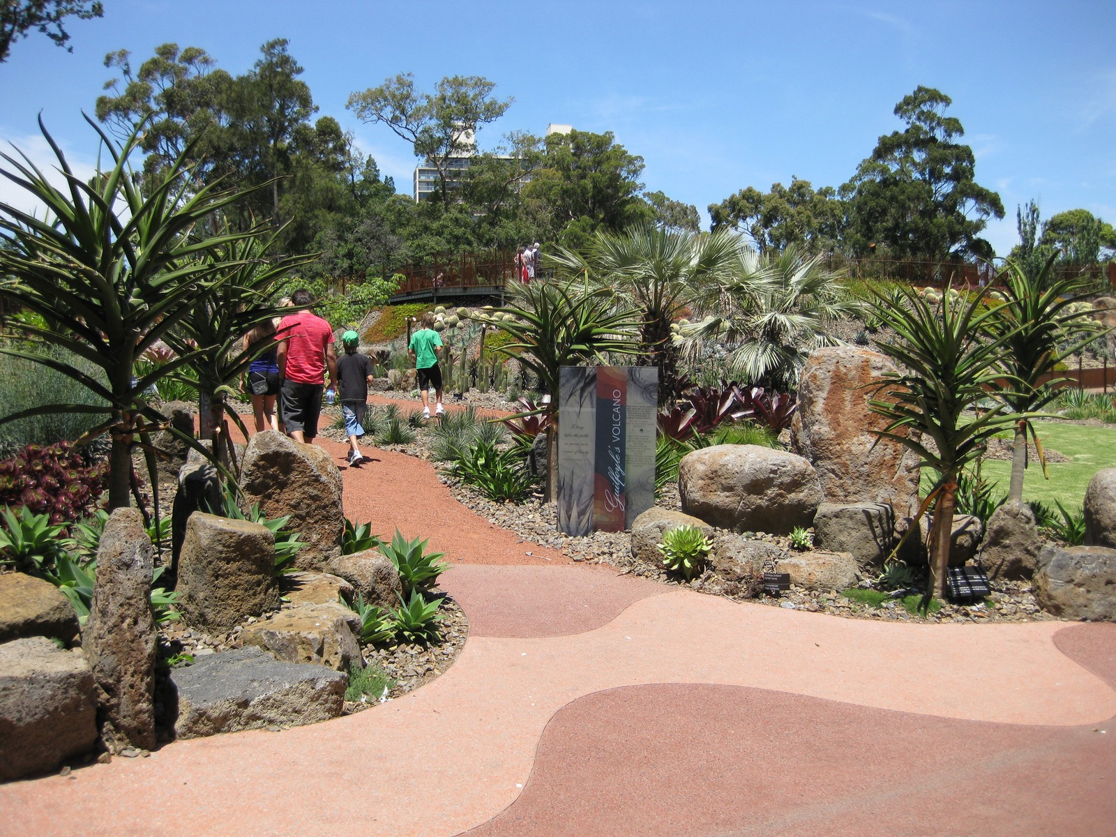 Photographed at the Royal Botanic Gardens Melbourne (Australia) in December